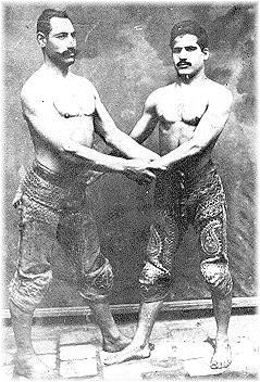 Pahlavan-e Bozorg Razaz with one of his students Haj Bagher Miveh-chian